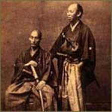 Moriyama Einosuke (left)